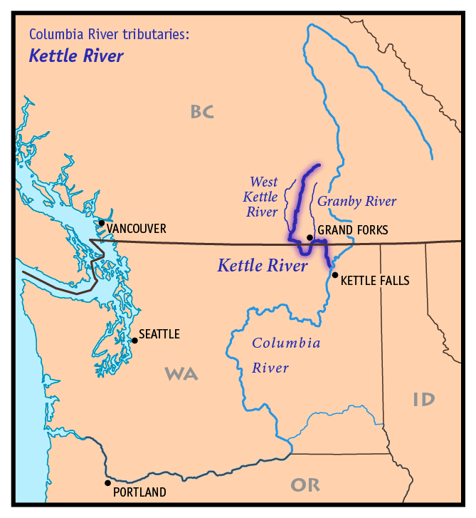 This is a map of the Kettle River — in the Columbia River Basin. Credits I, Pfly, created it based on USGS and Digital Chart of the World data.